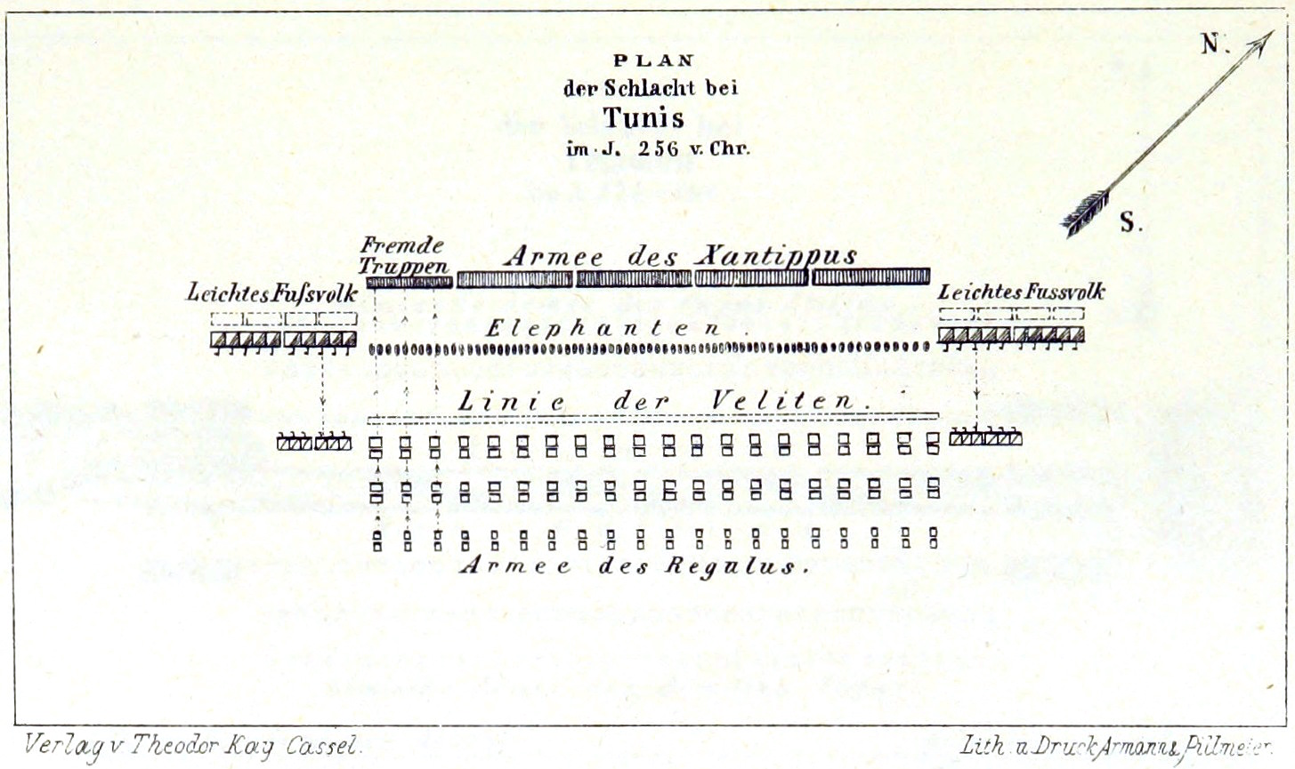 A German map of the 255 BC Battle of Bagradas.